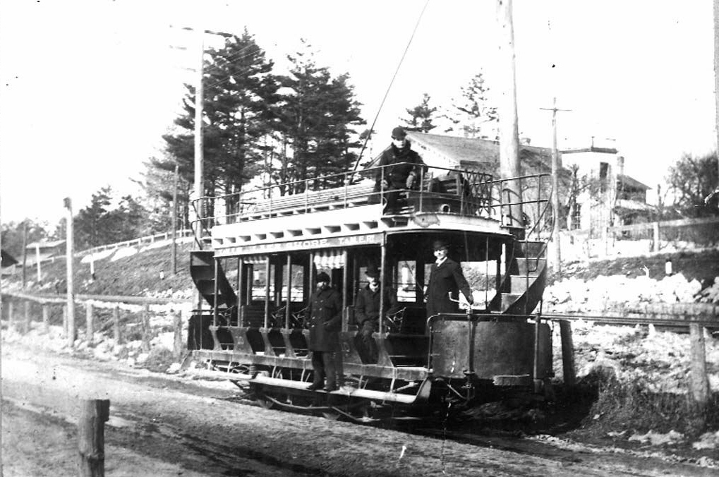 View of a Toronto & Mimico Railway Company single truck double deck car on Lakeshore Road, Sunnyside, near Sacred Heart Orphanage. Toronto, Canada.